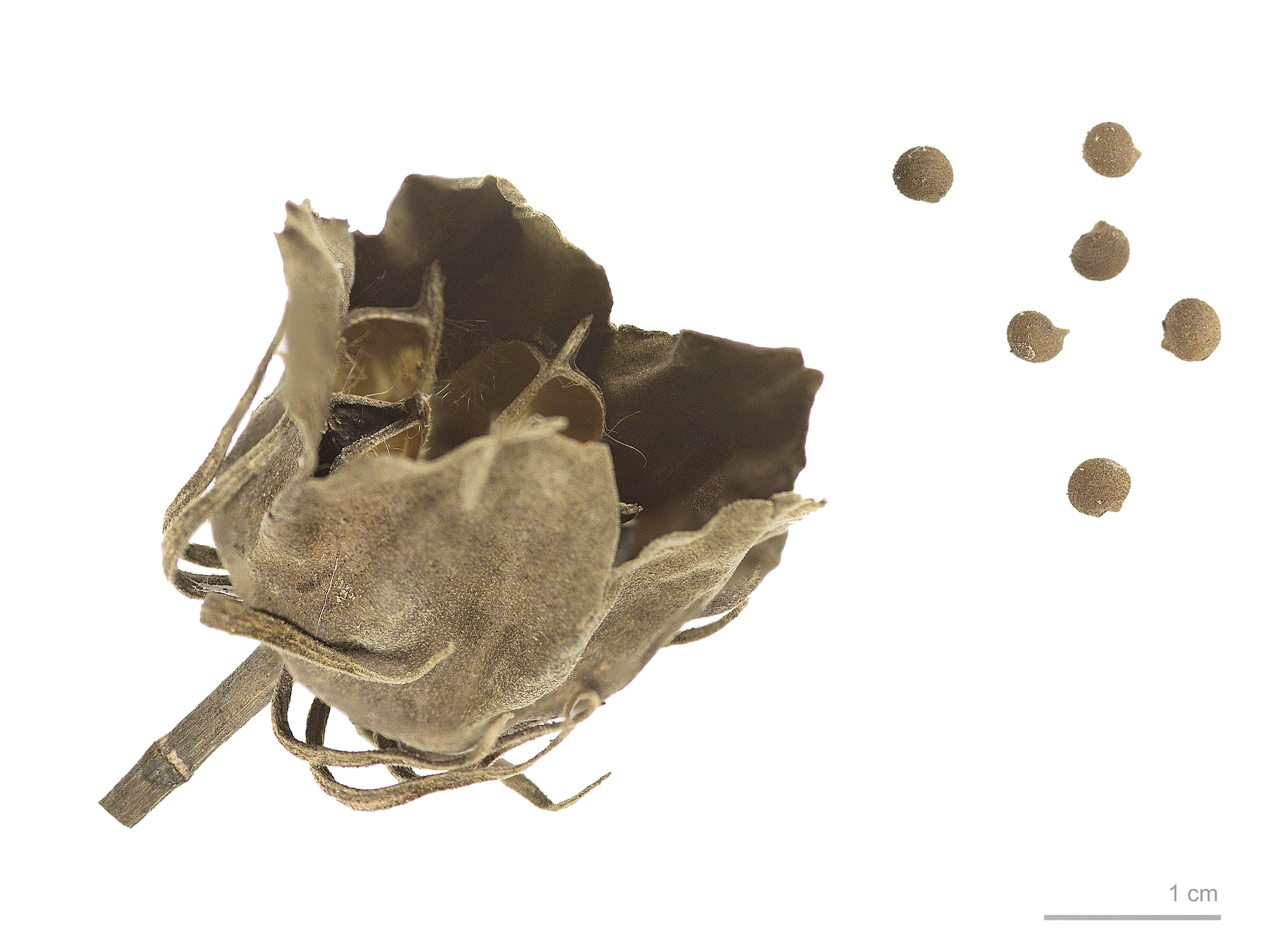 rose mallow , fruits and seeds